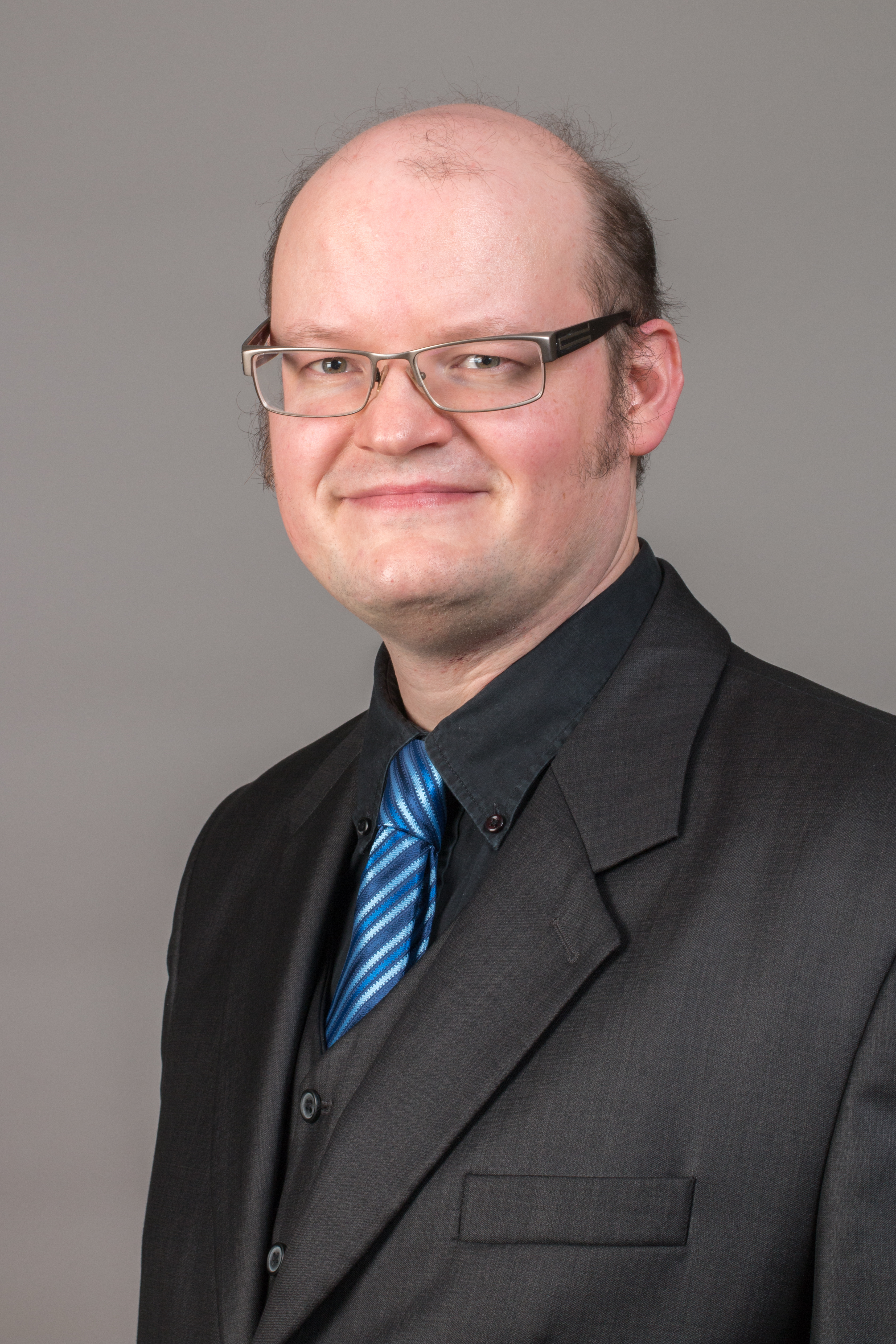 Daniel Hensel, composer, VJ, musicologist and music theorist from Büdingen, Germany